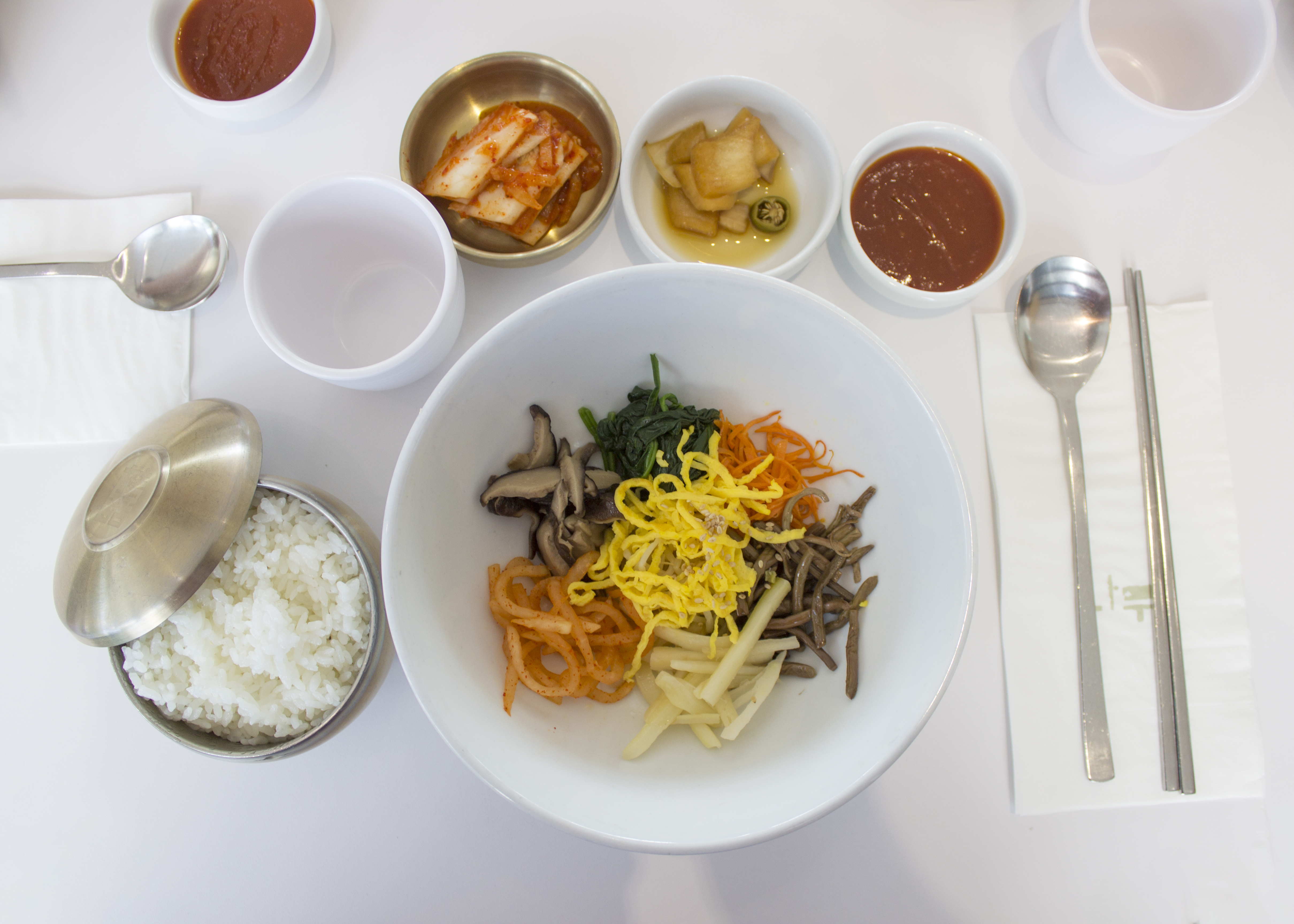 South Korea lunch menu item.